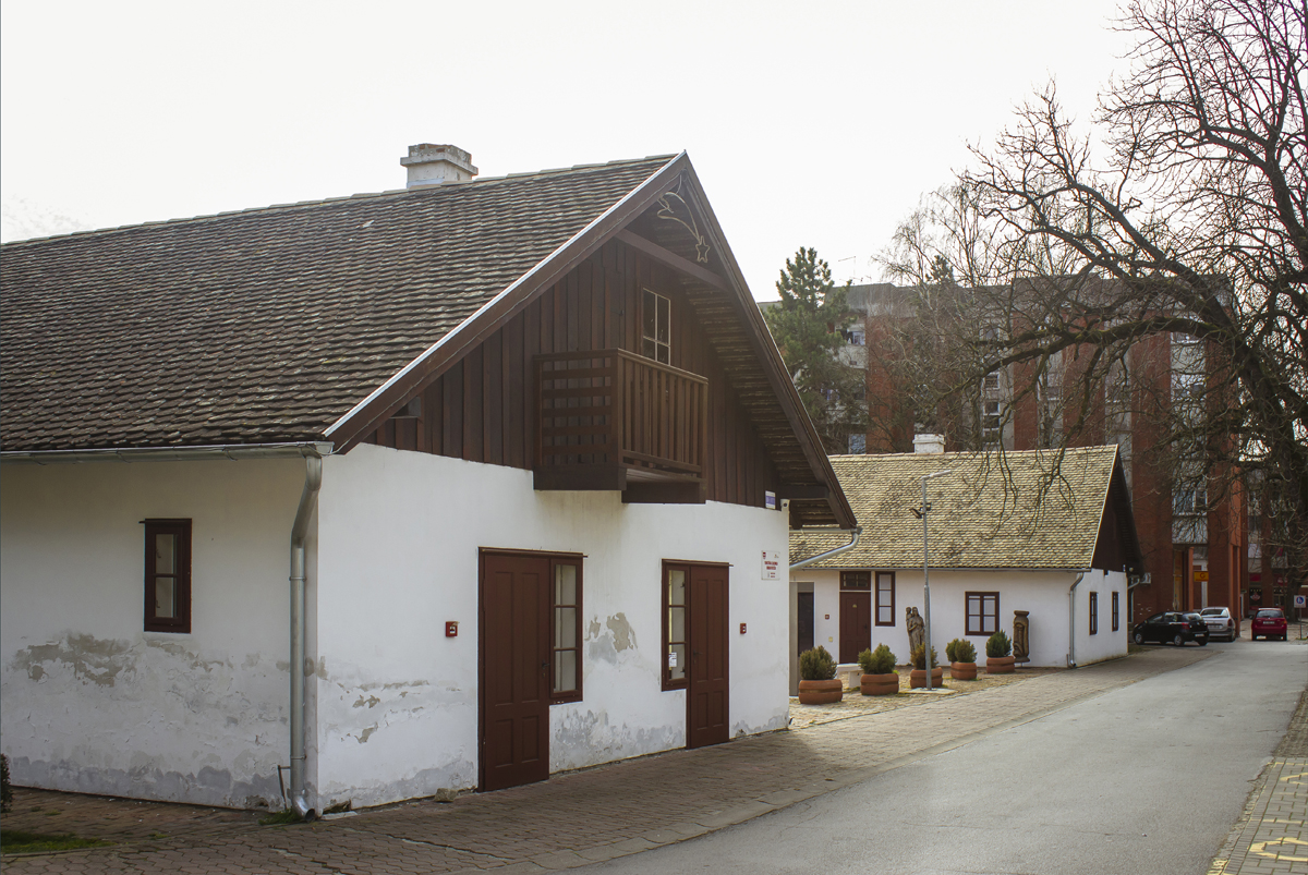 Belišće 5